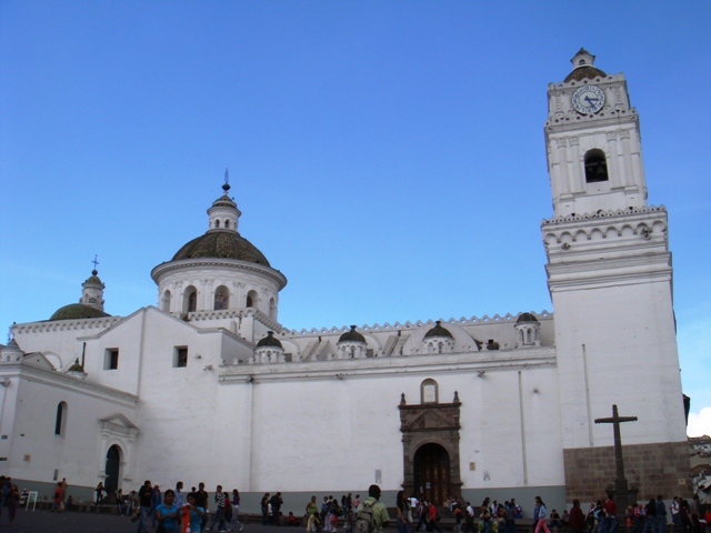 La Merced church and convent, Quito.